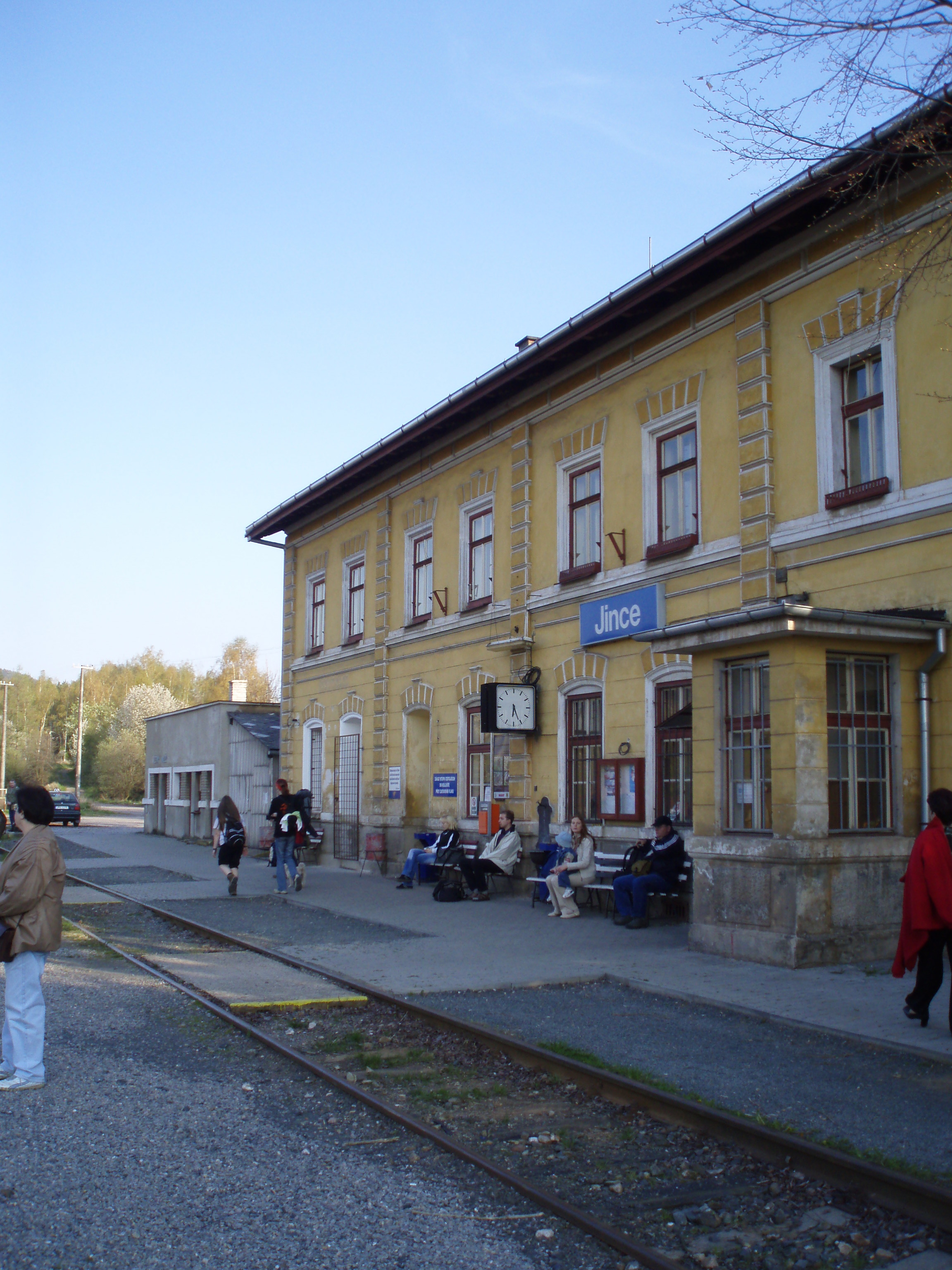 Train station in Jince, Central Bohemian Region